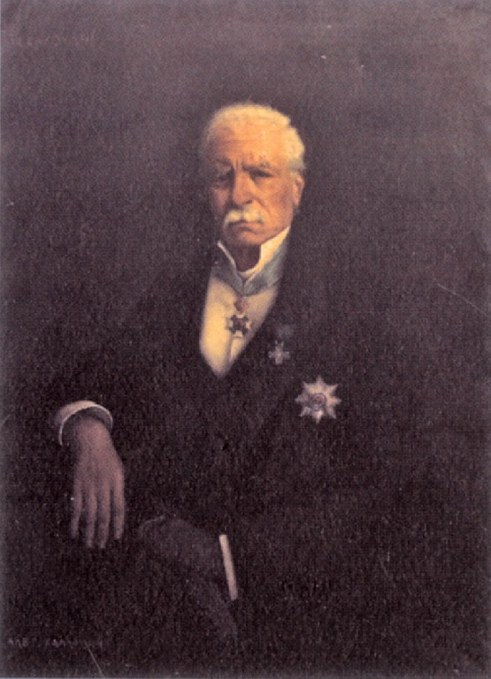 Portrait of Anargyros Petrakis